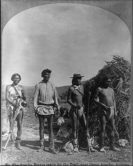 "Apache braves ready for the trail, near Camp Apache, Arizona." An 1873 stereograph, a wickiup is in the background.